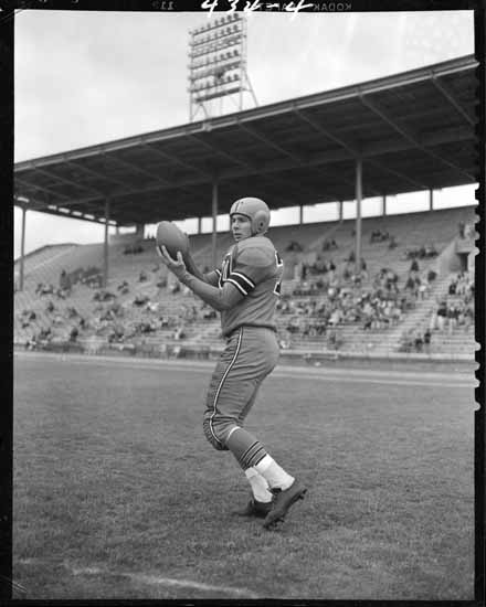 B.C. Lions football club, portraits, individual players, Dick Christiansen VPL Accession Number: 84780U Date: July 10, 1954 Photographer / Studio: Jones, Art Content: Part of a series 84780+ (63 photos) Topic: Sports Sports teams Football Football players Stadiums Costume Sports uniforms Location: British Columbia - Vancouver Copyright Restrictions: Public Domain